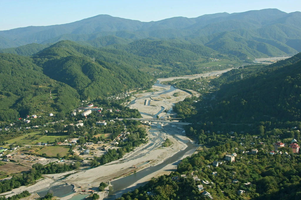 “Sochi resort town”. A view of Sochi.